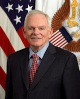 Heidi Shyu